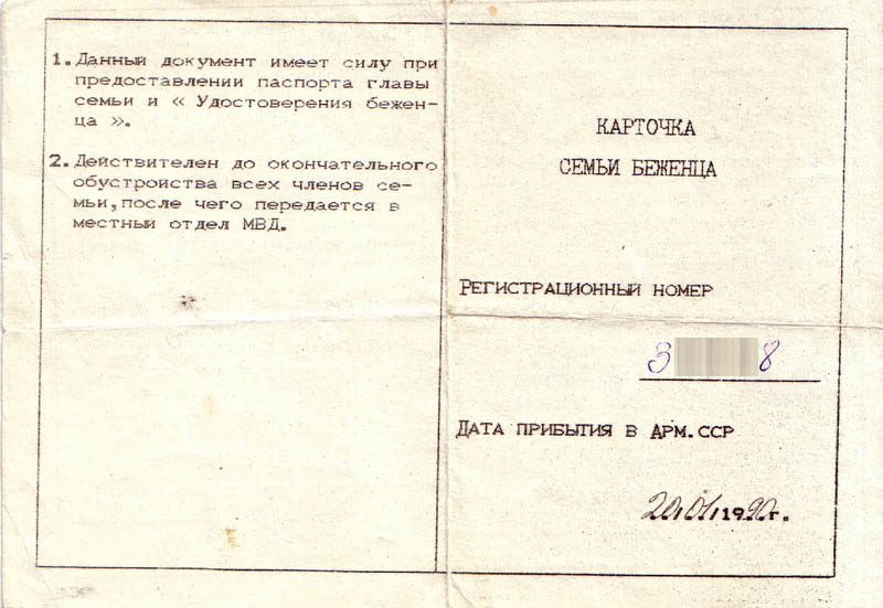 Refugee's family Identity (from Baku)